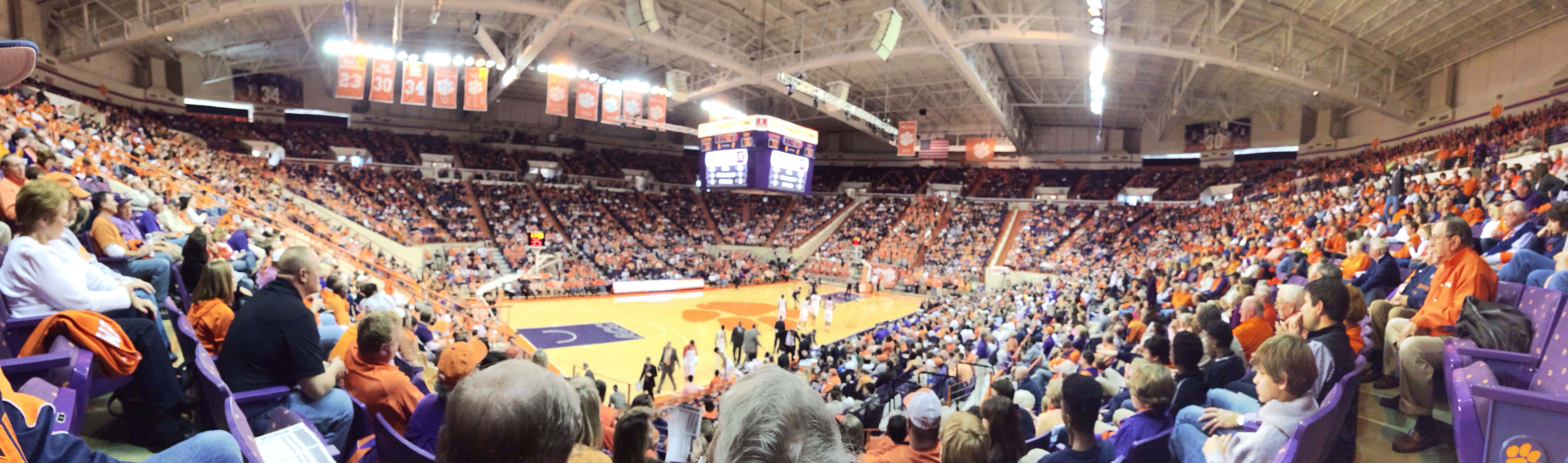 Clemson University's Littlejohn Coliseum